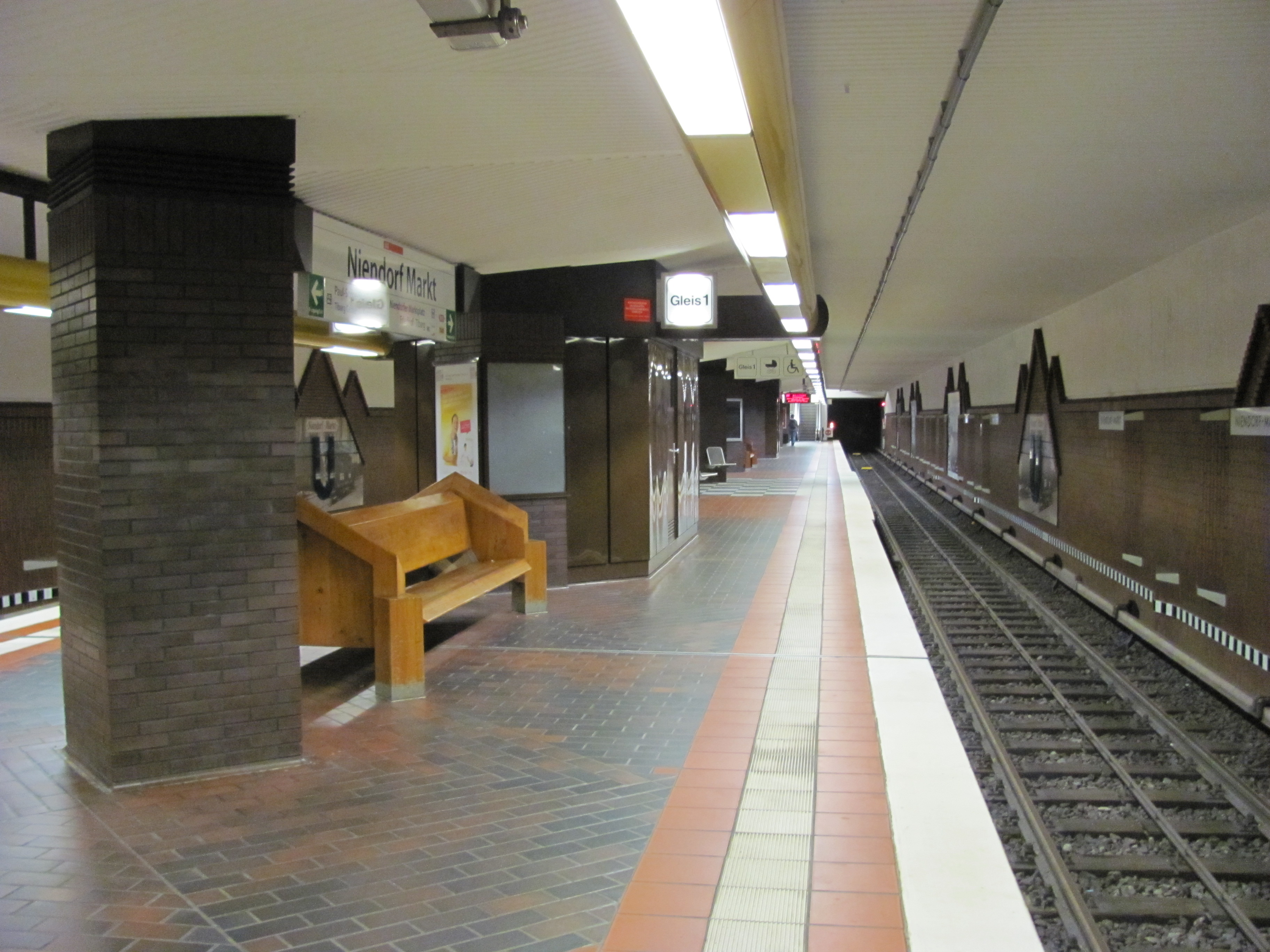 U-Bahn station Niendorf Markt in Hamburg, Germany